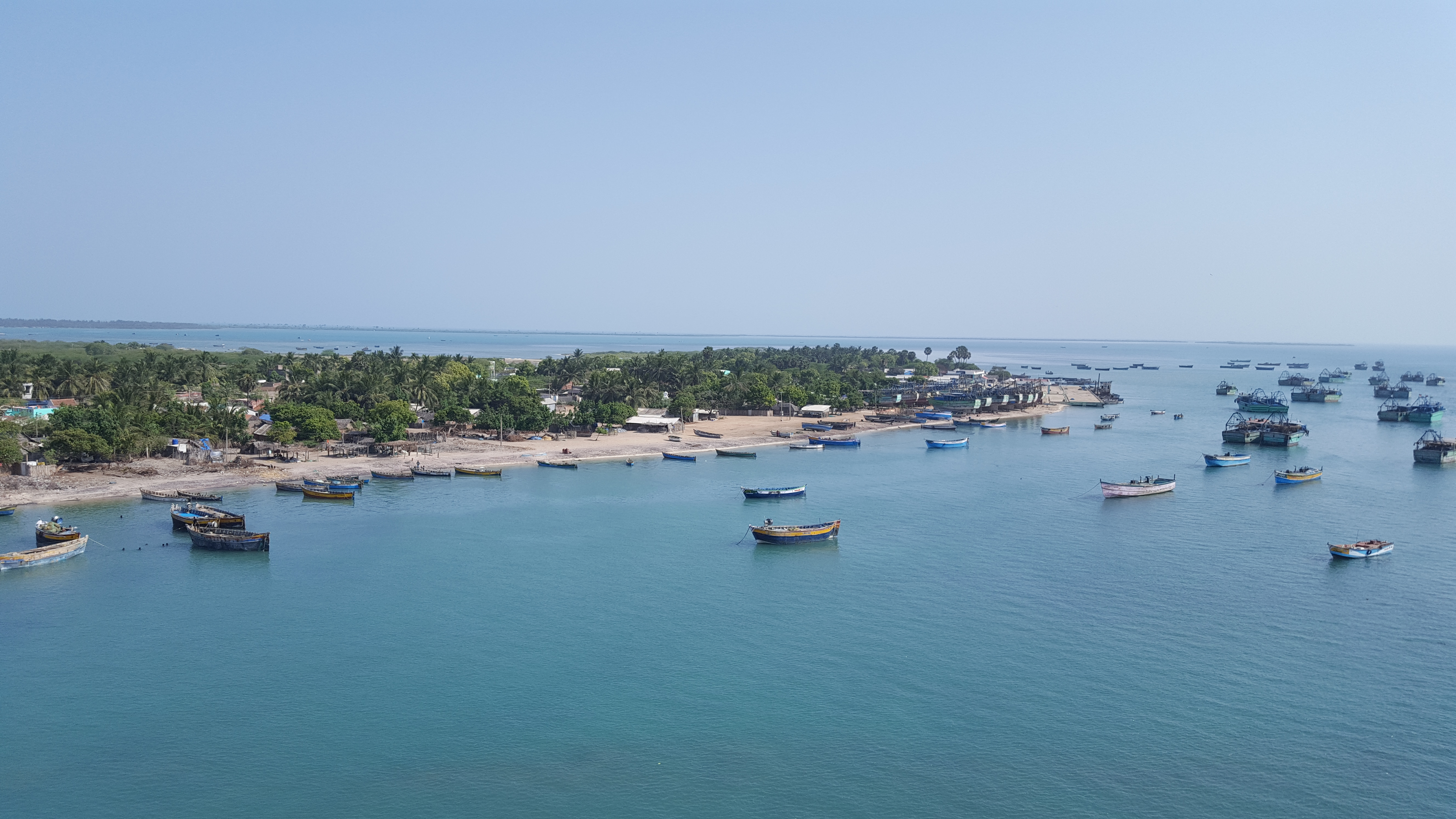 Boats standing at the island of rameswaram in tamilnadu.The deep blue color of the ocean and the boats add grace to the picture..